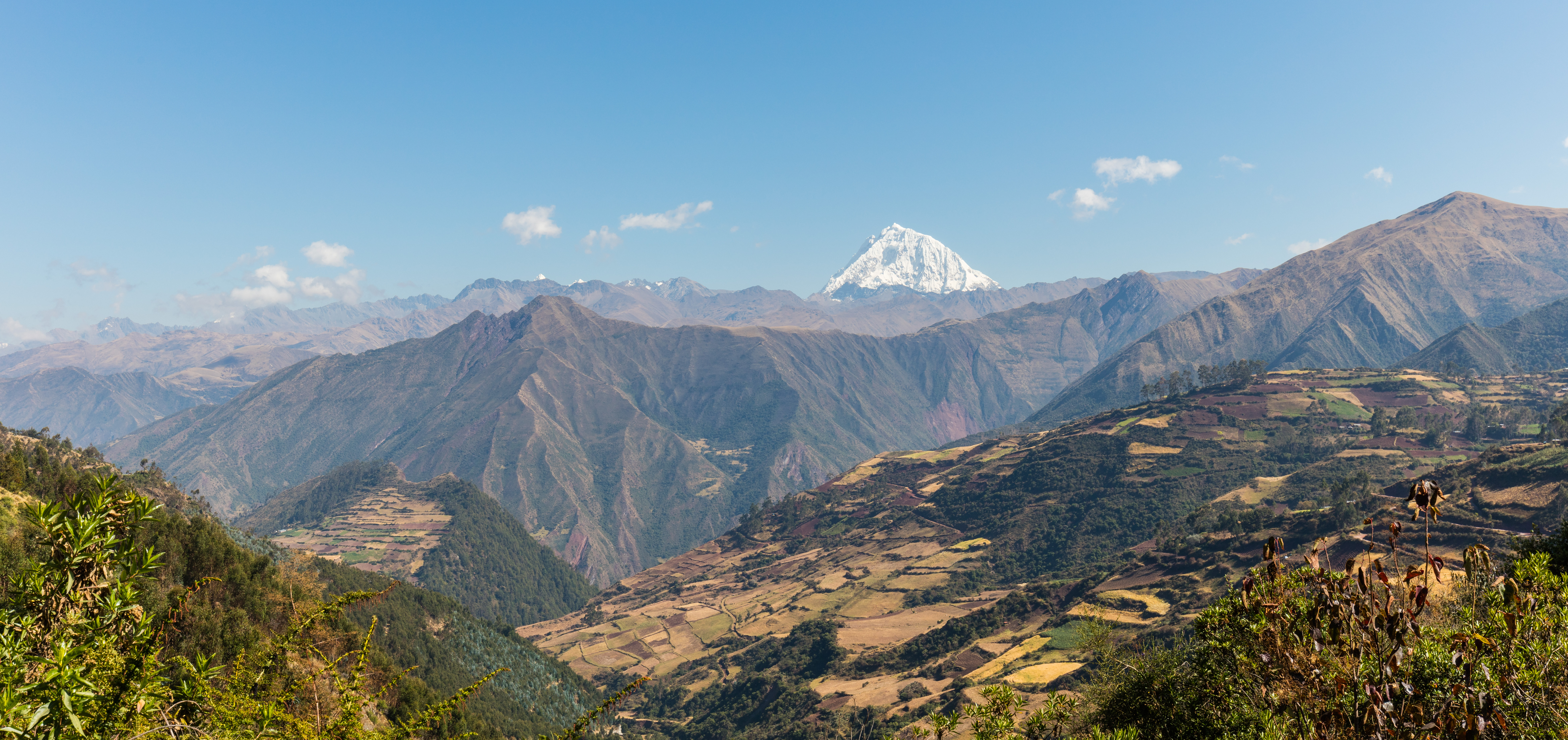 View of the Andes, Limatambo, Cuzco, Peru